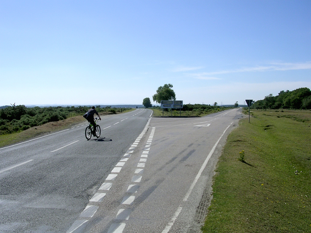 Junction of the B3078 and B3080 at the Bramshaw Telegraph, New Forest. The B3078 forks here, the left hand branch to Godshill and Fordingbridge and the right hand (B3080) to Woodfalls and Downton. It is a very sharp fork and the skids on the tarmac show that it is a potentially dangerous one.